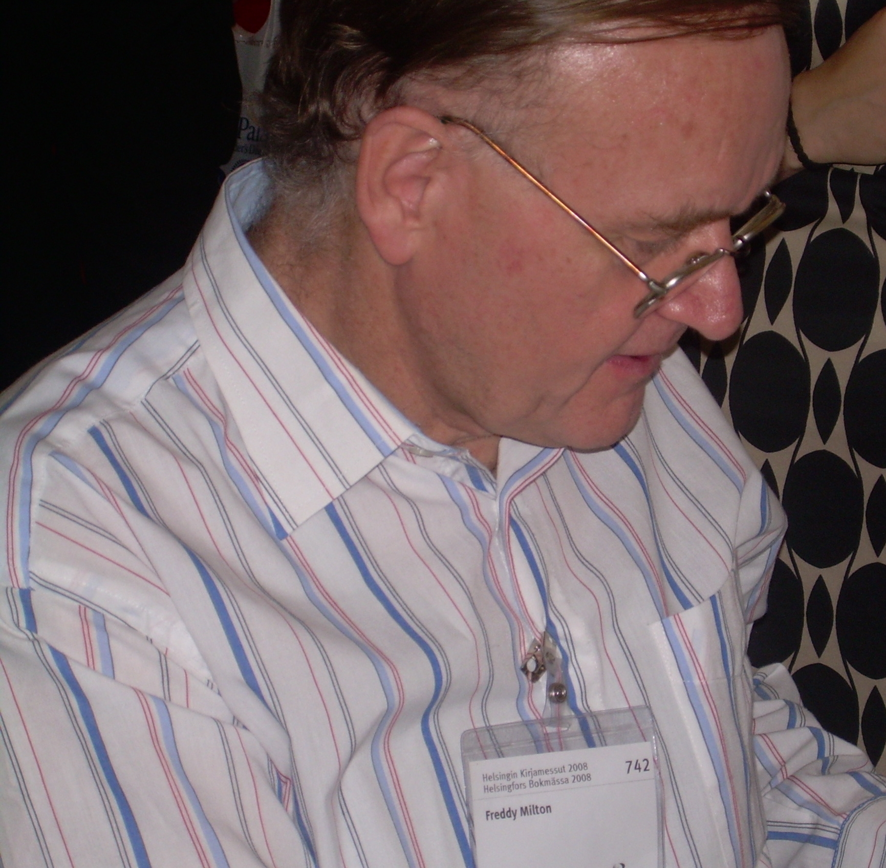 Danish cartoonist Freddy Milton at the Helsinki Book Fair 2008.